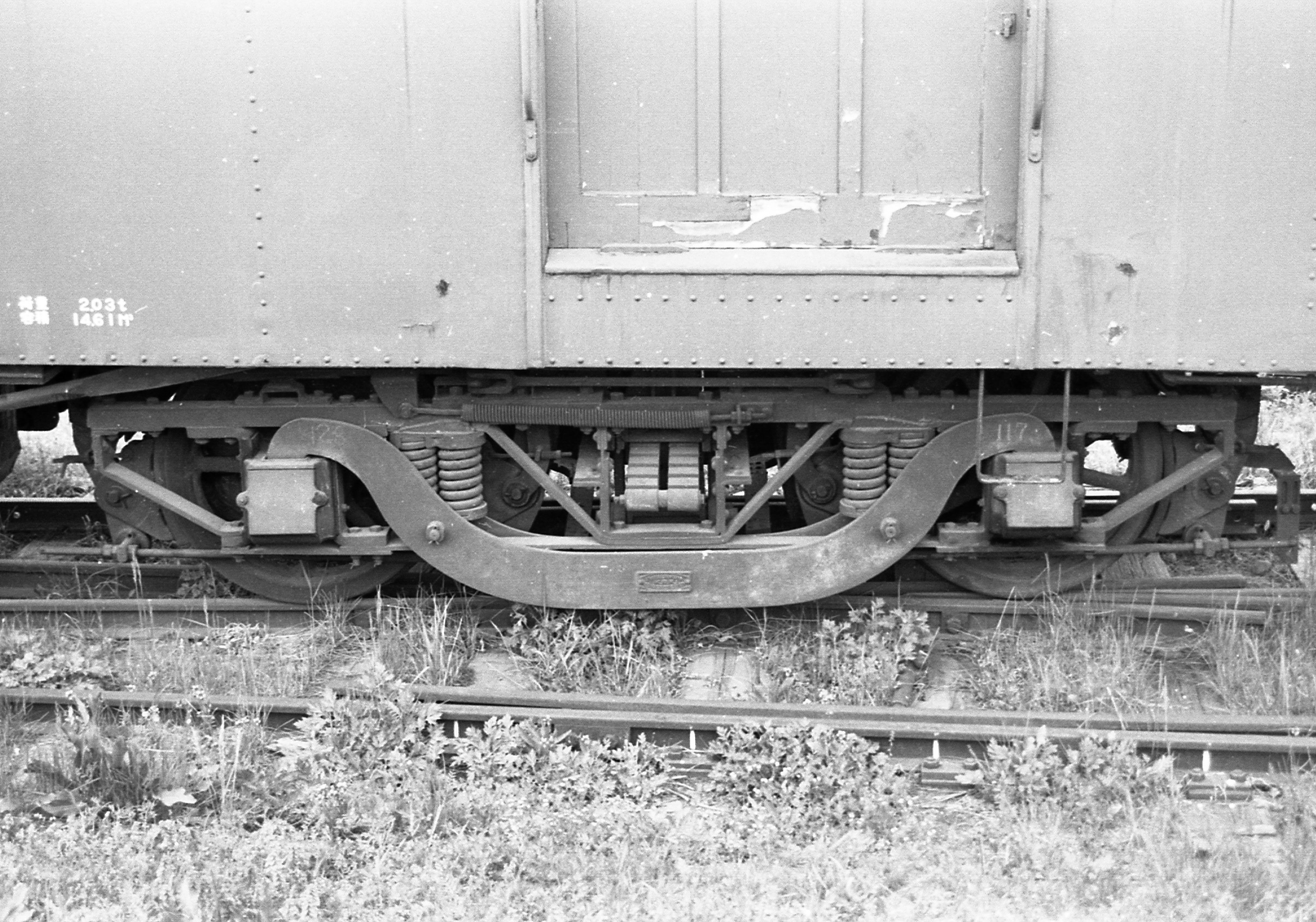 Nagaden Dehani 201 bogie truck